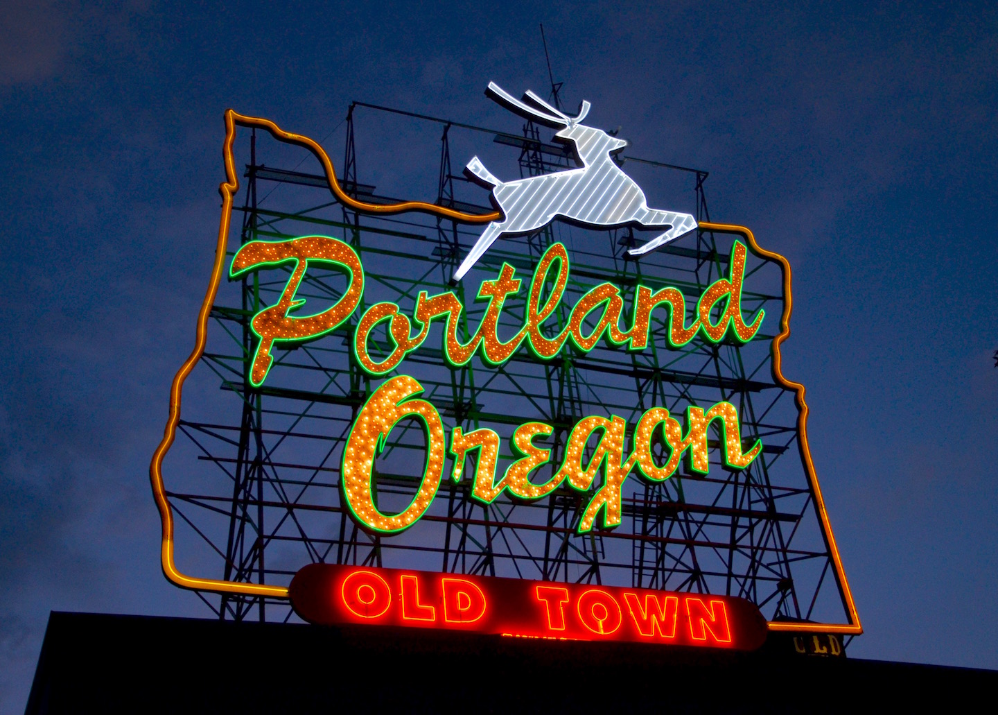 The White Stag Sign, in Portland, Oregon, at dusk, showing the wording it began displaying in late November 2010. The 1940-built sign was designated a Portland landmark by the city's Historic Landmarks Commission in 1977.